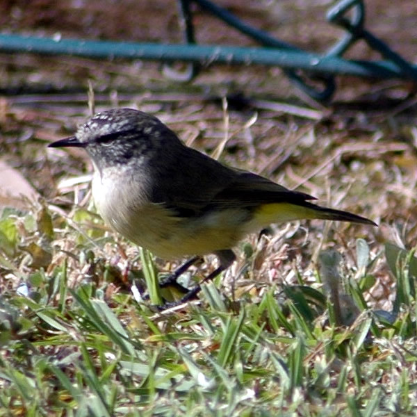 Bird, Yellow-rumped Thornbill, Acanthiza chrysorrhoa